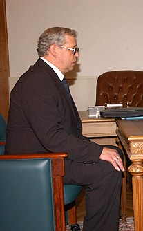 BOCHAROV RUCHEI, SOCHI. Konstantin Totsky, the Russian ambassador to NATO.